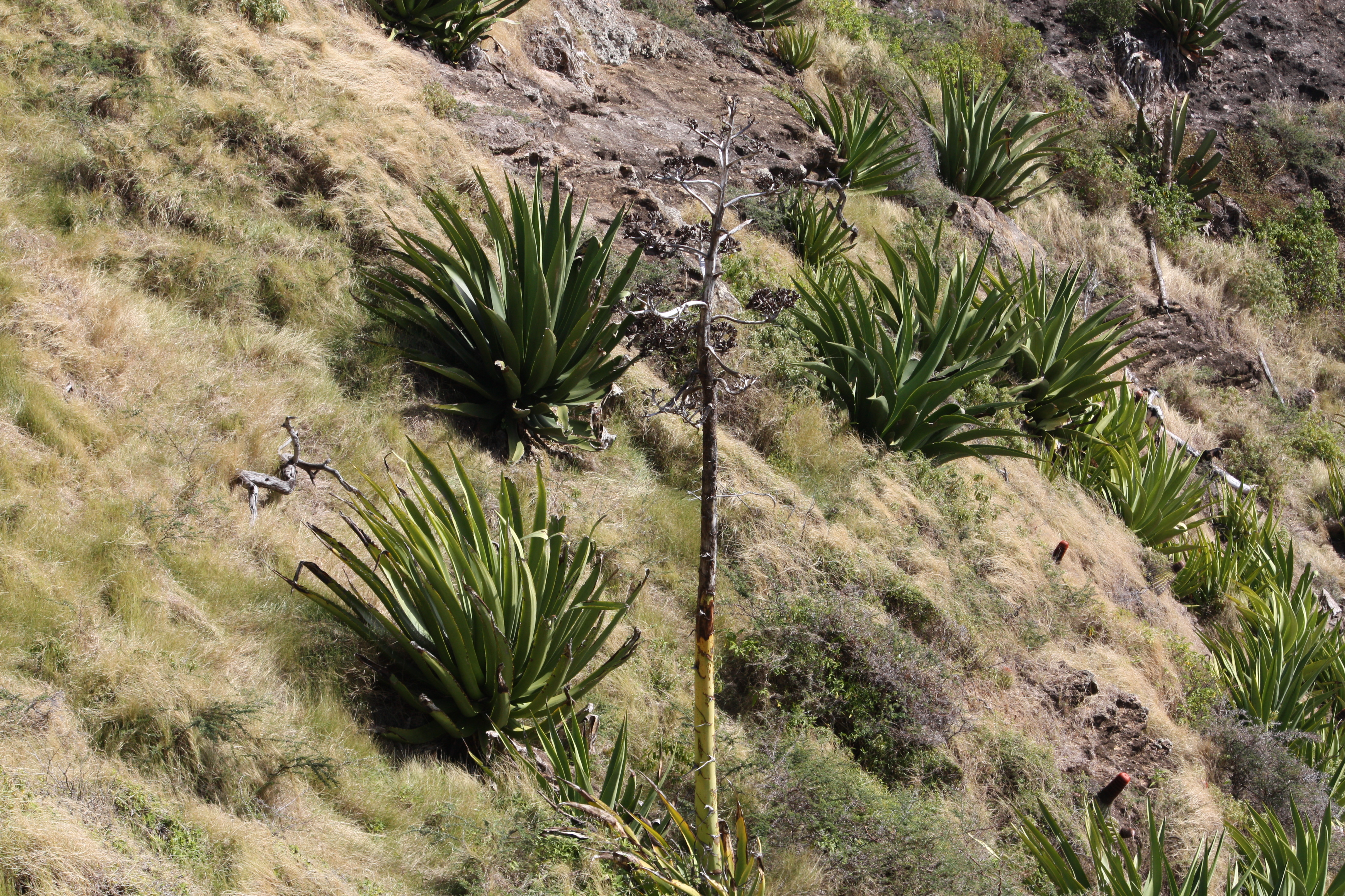 Century plant, Dagger, Maypole (Agave karatto, Miller) fruiting - Shirley Heights, Antigua. (Synonyms for Agave karatto: Agave trankeera, Agave van-grolae, Agave scheuermaniana, Agave salmdyckii, Agave obducta, Agave nevidis)